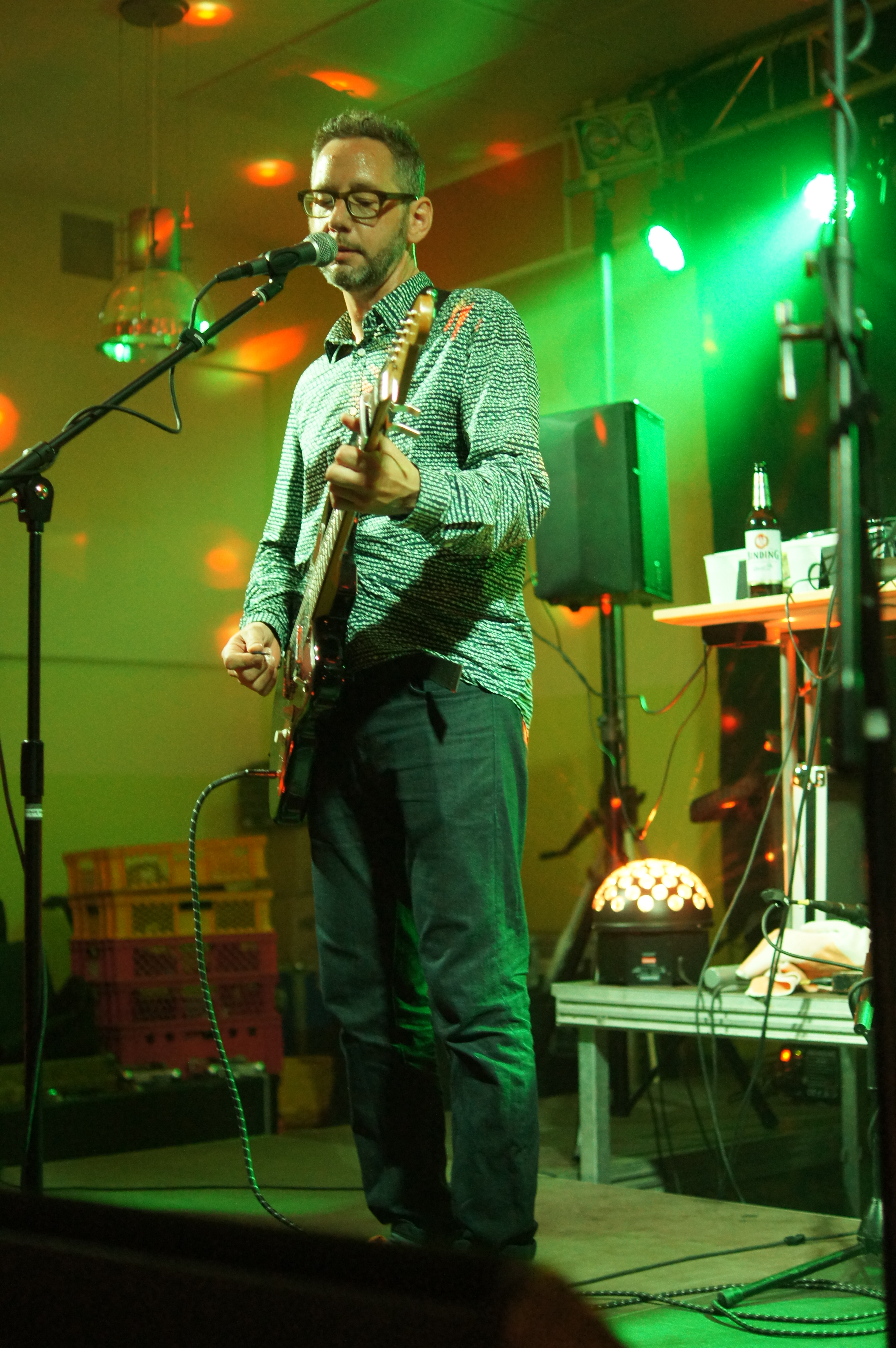 Esperanto musician Martin Wiese at the 71th International Youth Congress of Esperanto in Wiesbaden, Germanio.